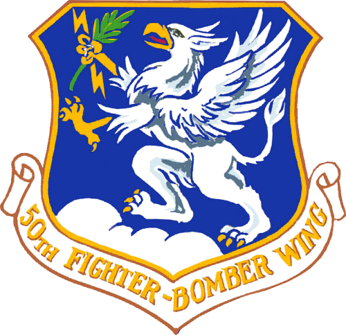 Emblem of the 50th Fighter-Bomber Wing (1954-1956), a wing of the United States Air Force